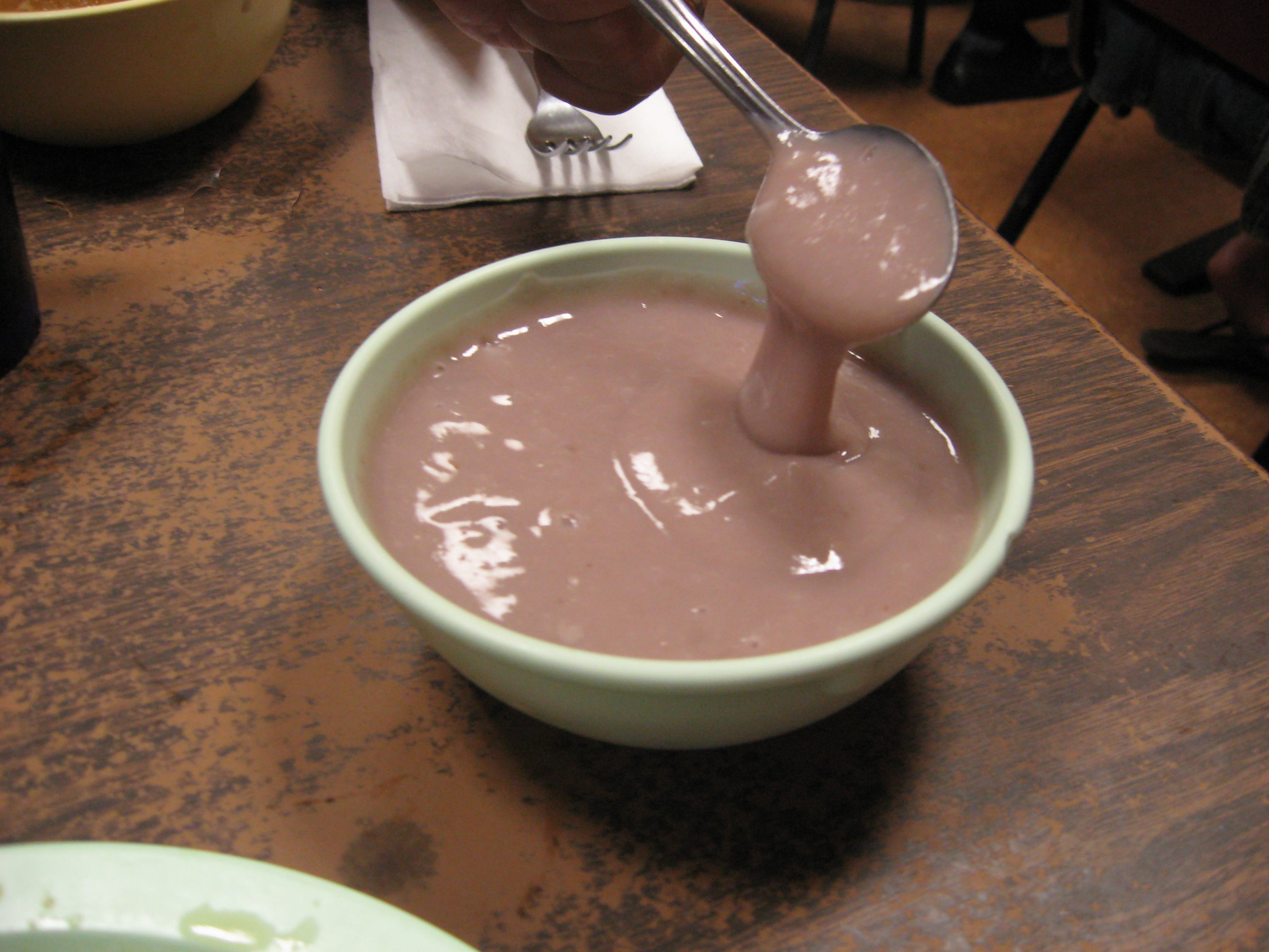 A medium-sized bowl of poi with a spoon to show consistency.